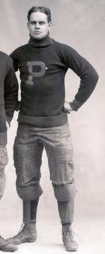 Thomas Truxtun Hare, Athlete and medalwinner at the 1900 and 1904 Olympic Games photography, adapted reproduction, no restrictions on use